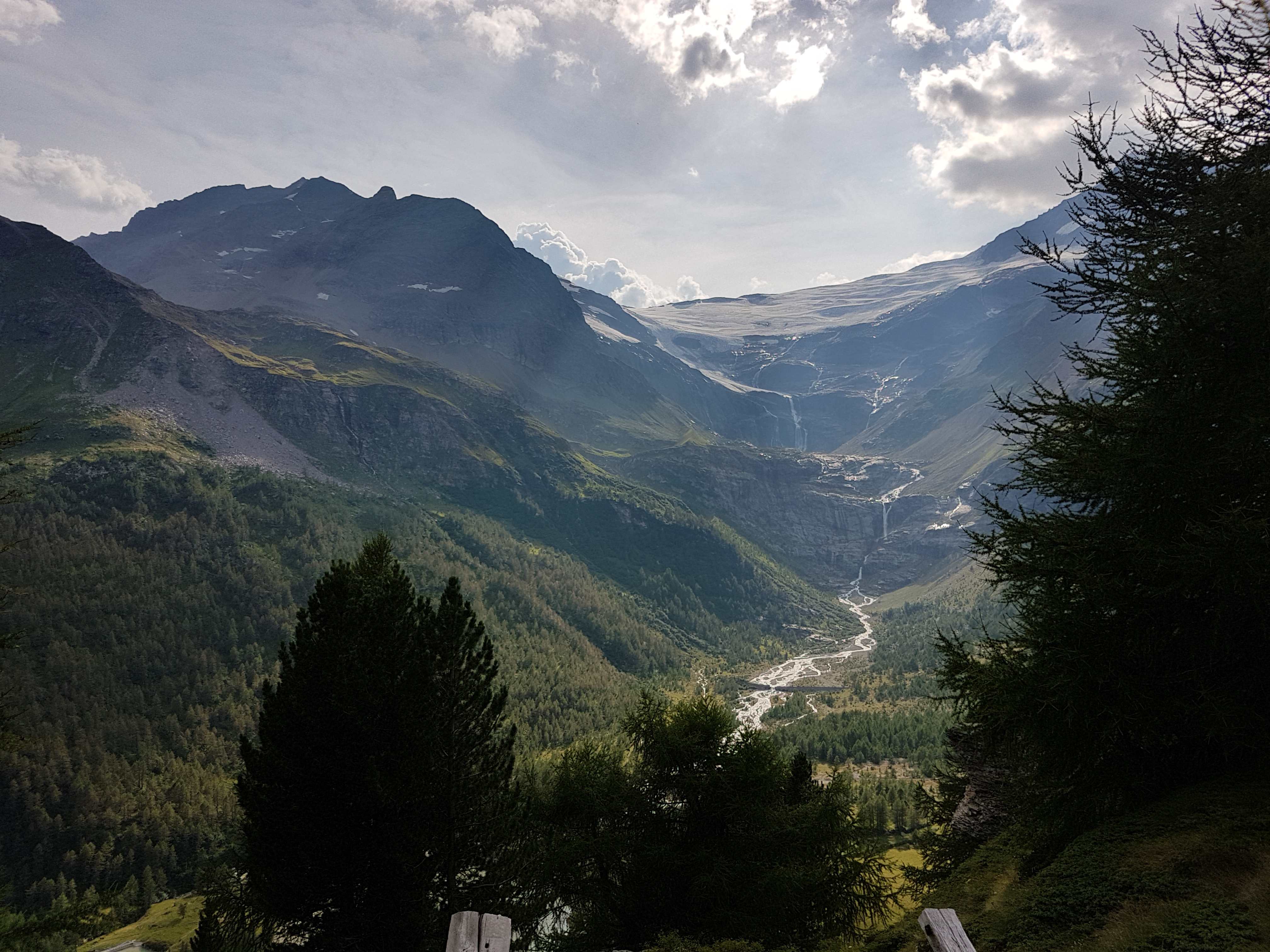 Alp Gruem in Grisons, Schweiz. Glacier Palue 2018.